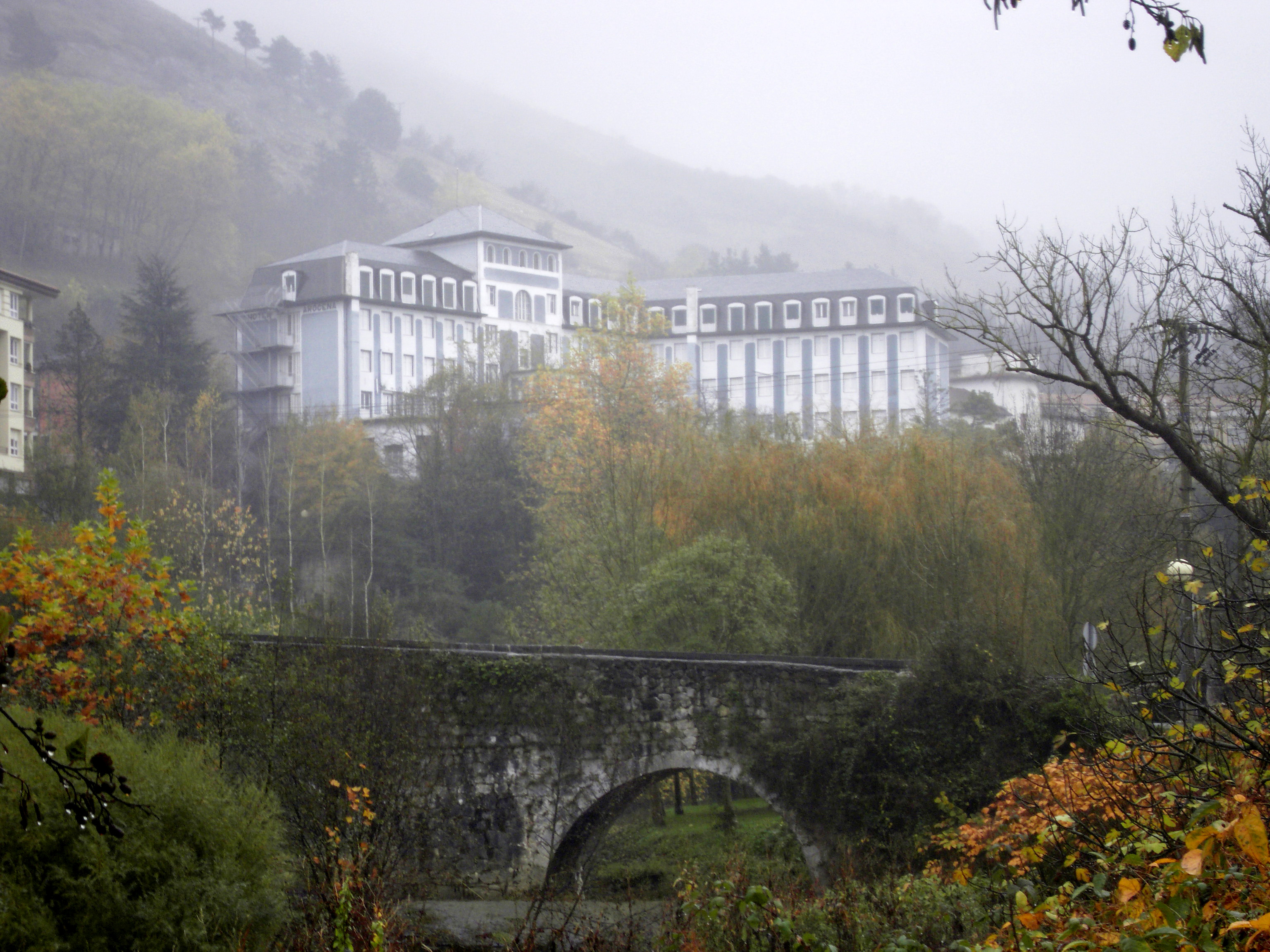 Arocena hotel, Zestoa (Guipuscoa, Basque Country)